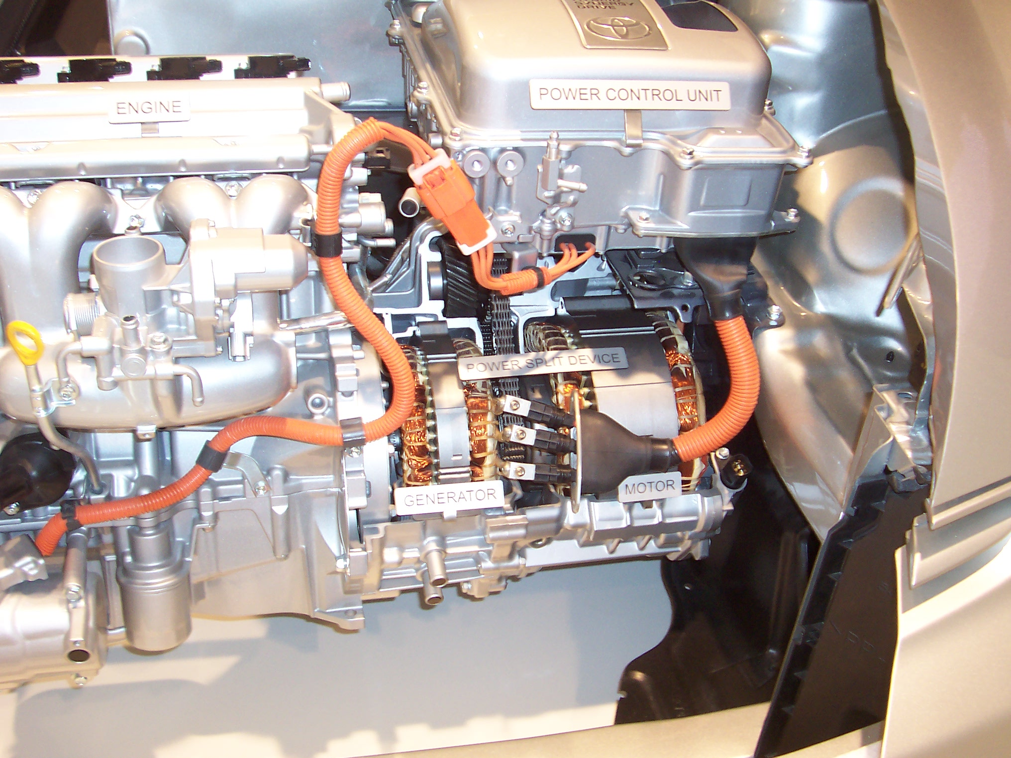 Toyota Showroom in Paris